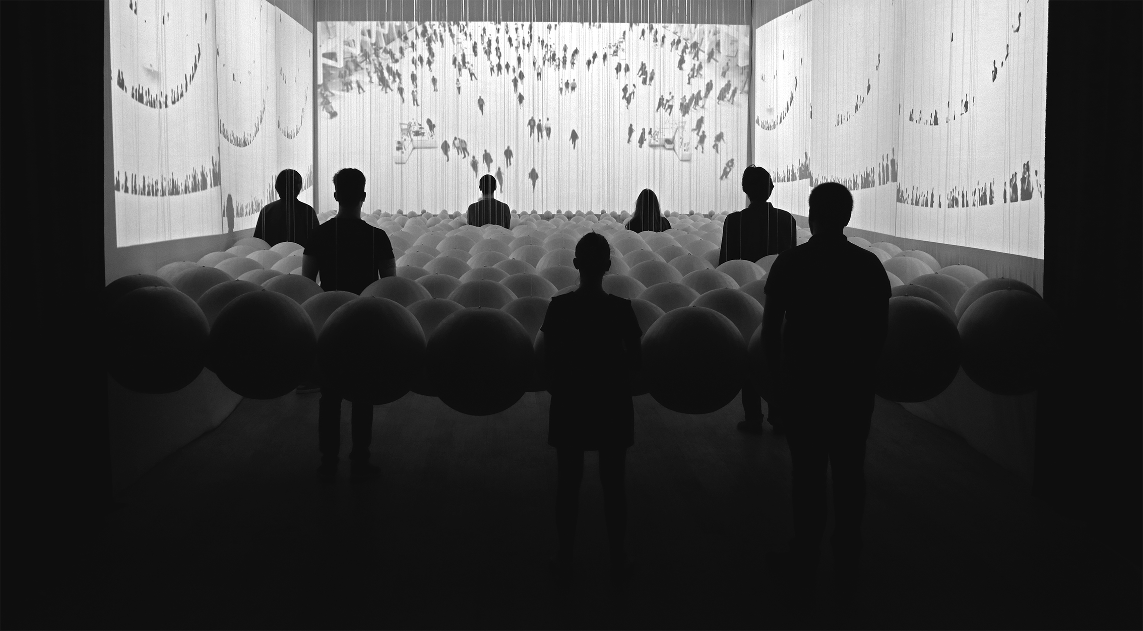 The System of Objects (video-sculpture, installation / 2018) by Levan Songulashvili.